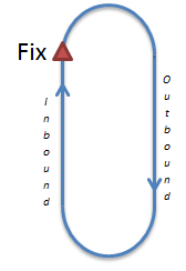 Holding pattern